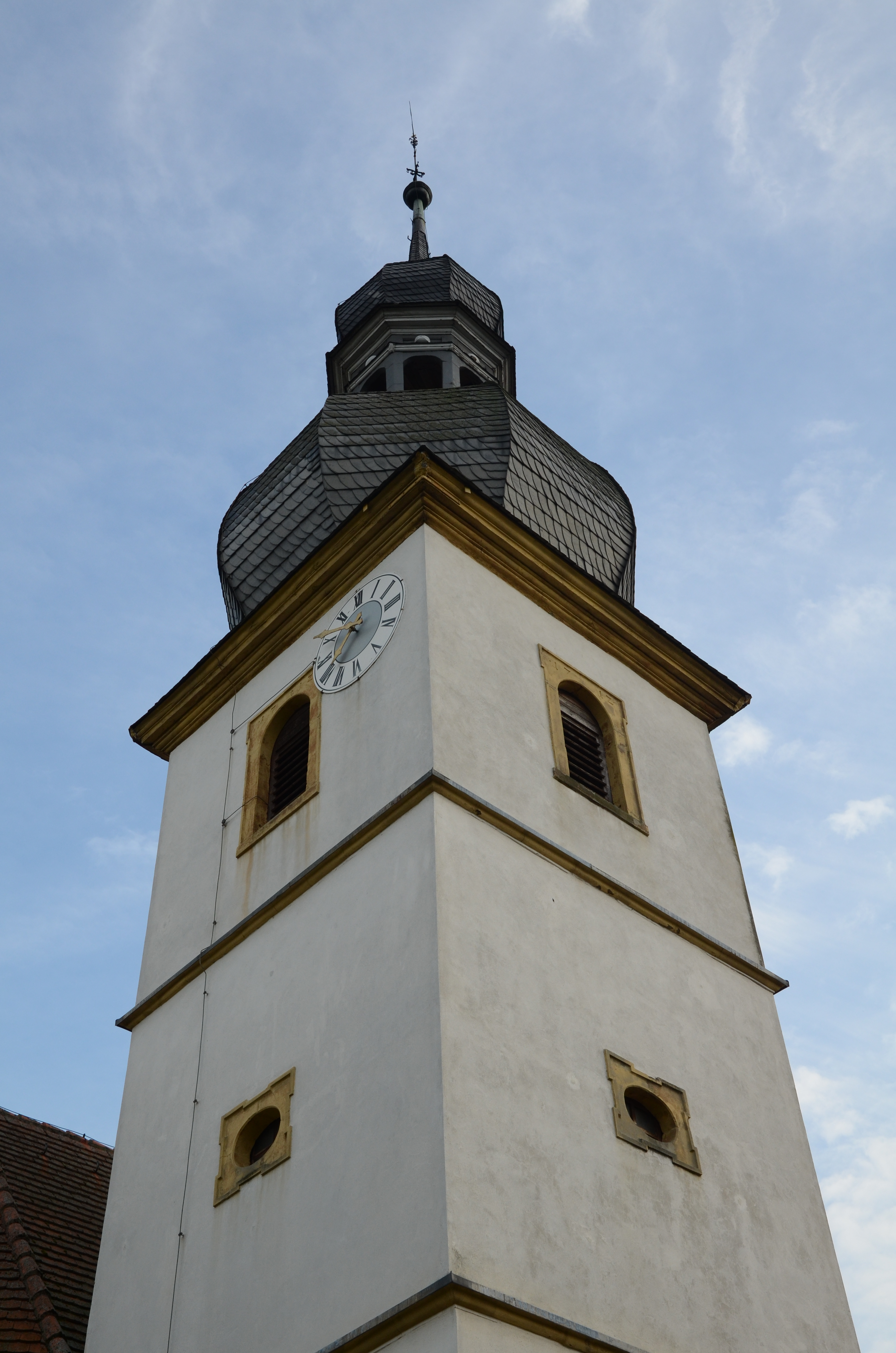 evang.-luth. Kirche in Bimbach